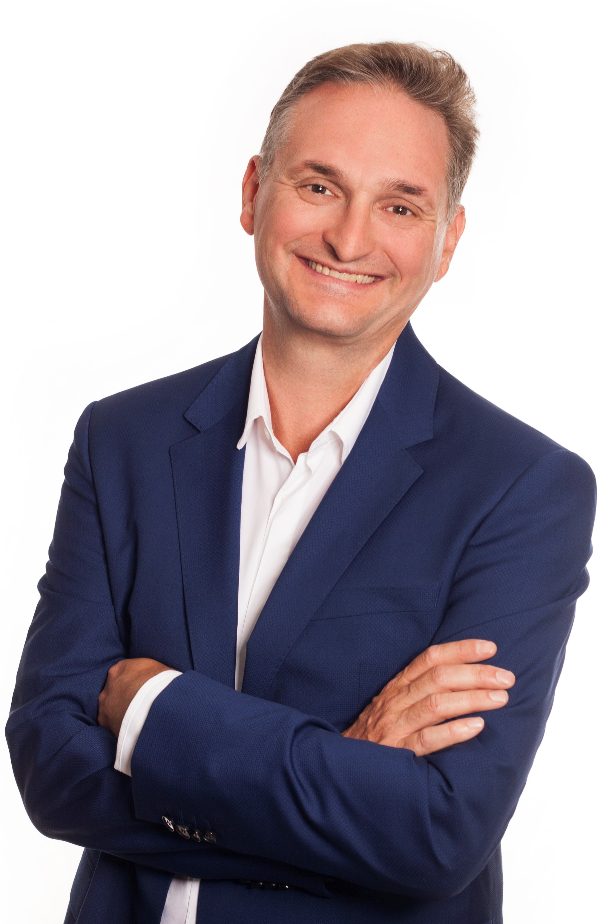 Oliver Stirböck, Member of 20. Parliament of the State of Hesse (The Landtag of Hesse)